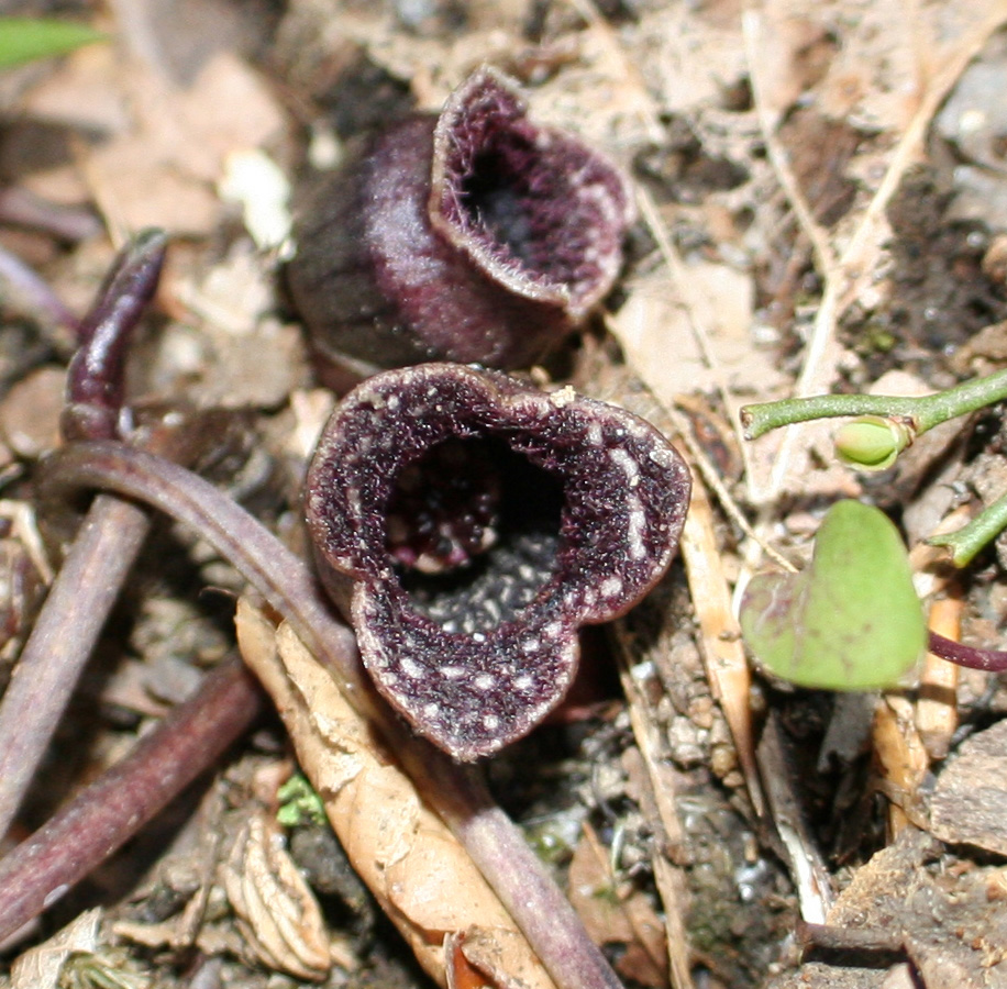 Hexastylis virginica flowers in the College Woods of the College of William and Mary in southeastern Virginia